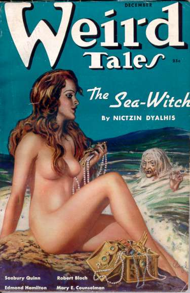 Cover of the pulp magazine Weird Tales (December 1937, vol. 30, no. 6) featuring The Sea-Witch by Nictzin Dyalhis. Cover art by Virgil Finlay.